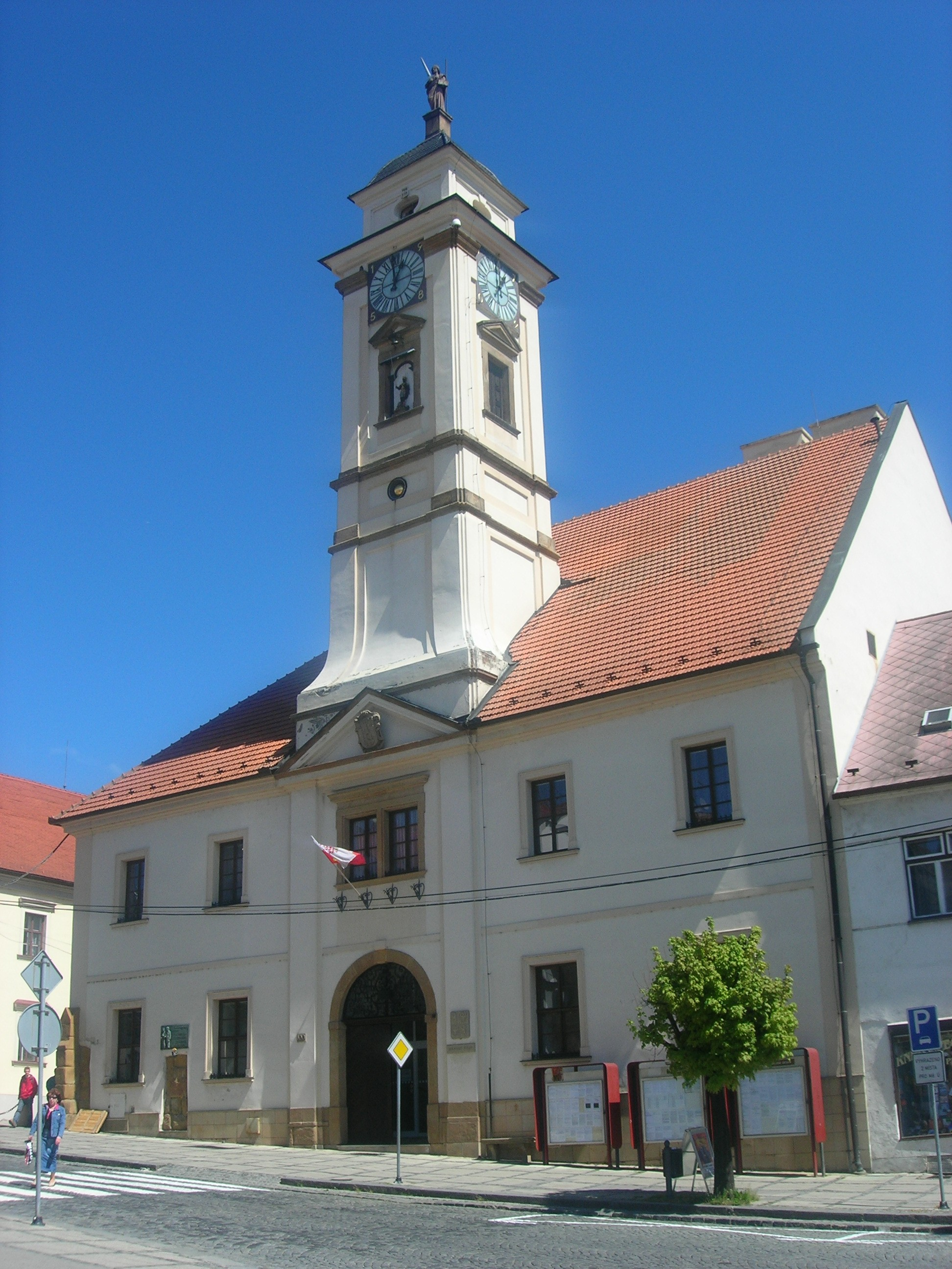 Townhall in Uhersky Brod, Czech Republic